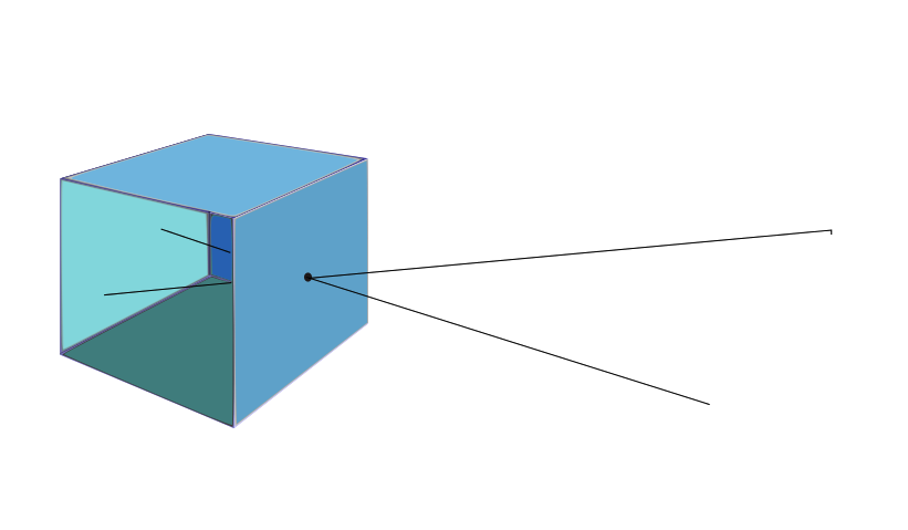 Depicting the principle of central projection